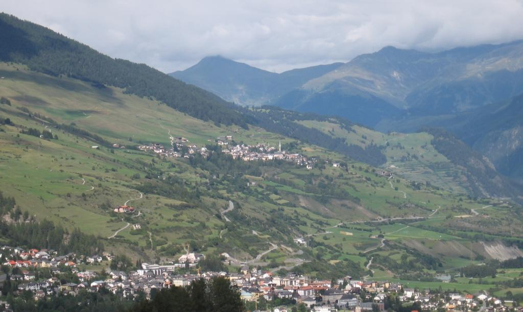 Southwest view of Sent, located in the lower Engadine valley in Switzerland.